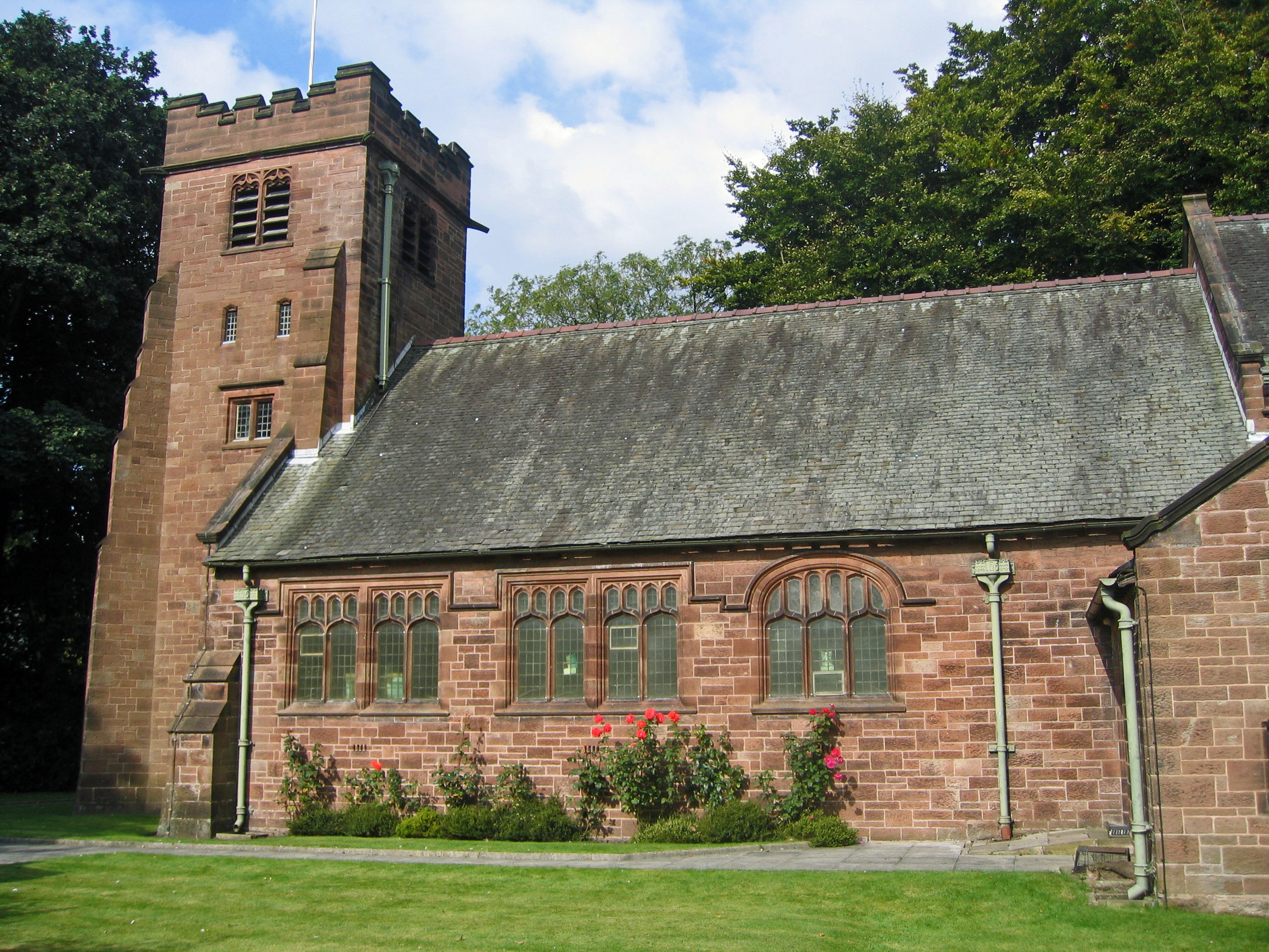 Nave and west tower of St John the Evangelist's parish church, Sandiway, Cheshire, seen from the south